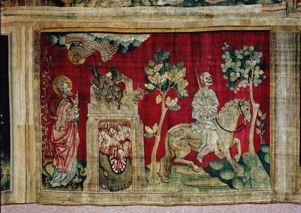 Château d'Angers; Angers; Pays de la Loire, Maine-et-Loire; France; Tenture de l'Apocalypse; no 12, Quatrième sceau: Le cheval livide et la mort; Cultural heritage; Cultural heritage|Tapestry; Europeana; Europe|France|Angers; Hennequin de Bruges (Jan Bondol en flamand); connu également sous les noms de Jean de Bruges ou de Jean de Bondol ou encore Jean de Bandol; ; Ref.: PMa_ANG010_F_Angers